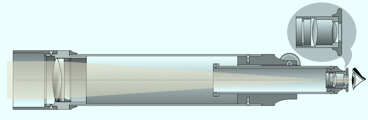 Kepler type telescope